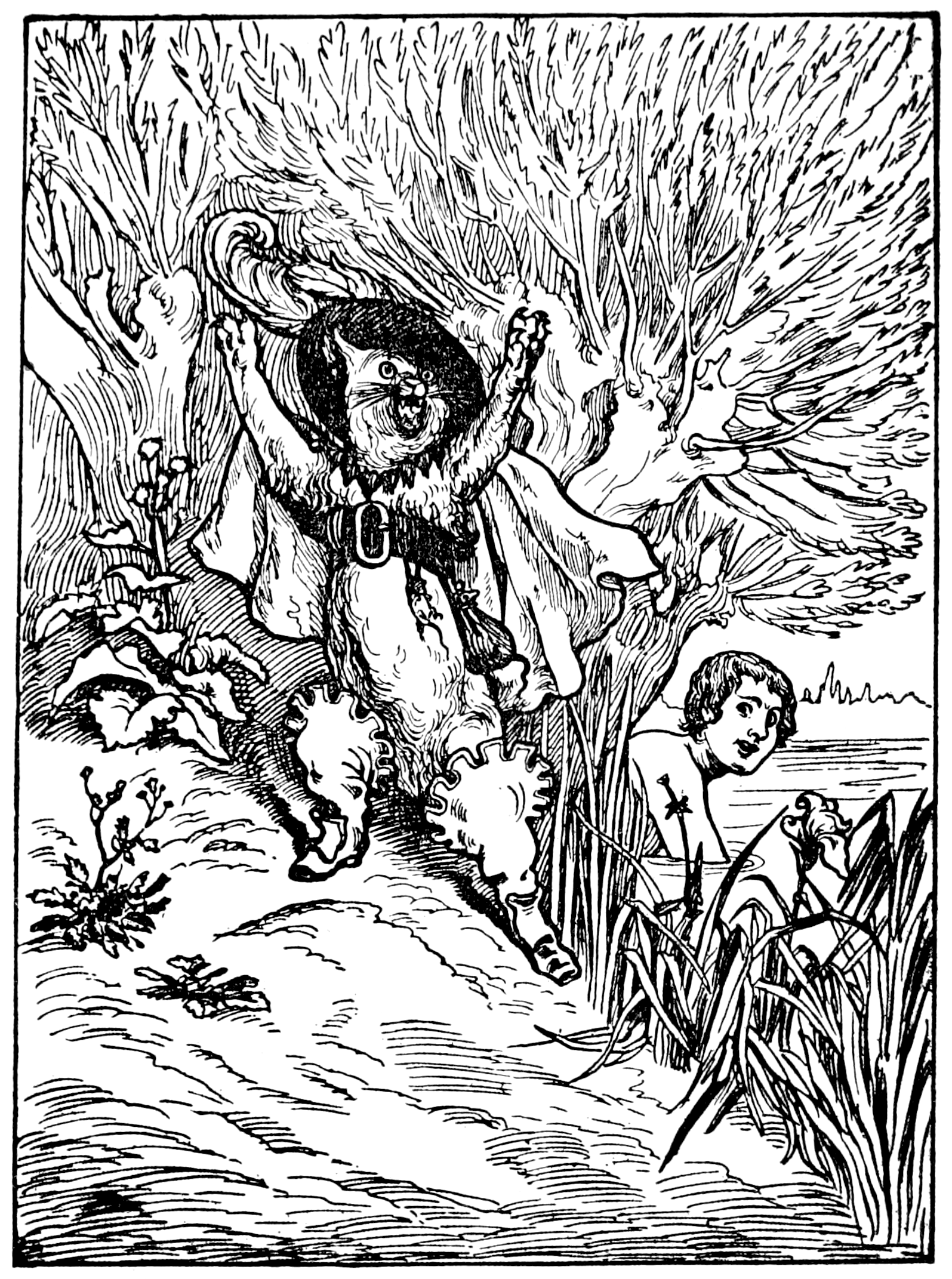 An illustration from Tales of Mother Goose by Charles Perrault; translated and edited by Charles Welsh The caption was "The Marquis of Carabas is drowning!", it illustrates the tale "The Master Cat, Or Puss in Boots"